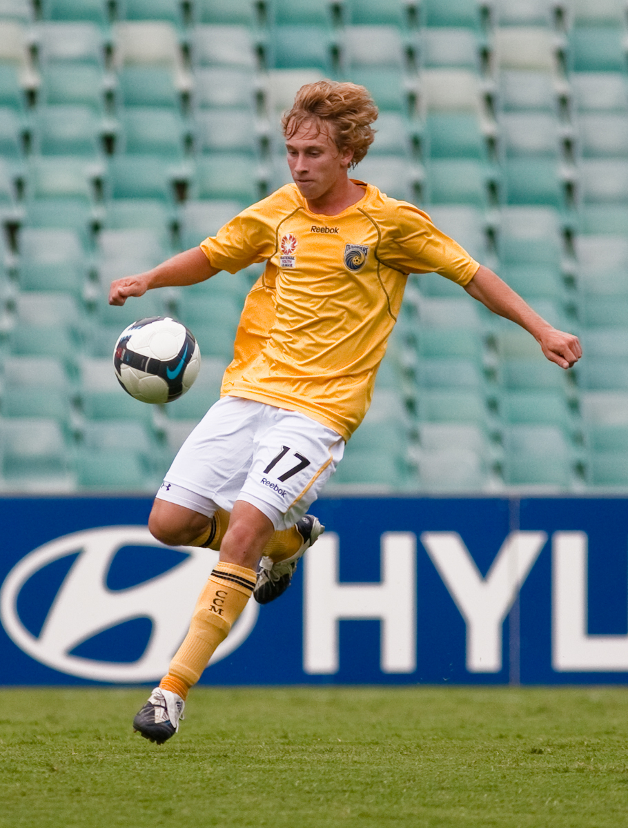 Matthew Lewis playing for the Central Coast Mariners Youth team.